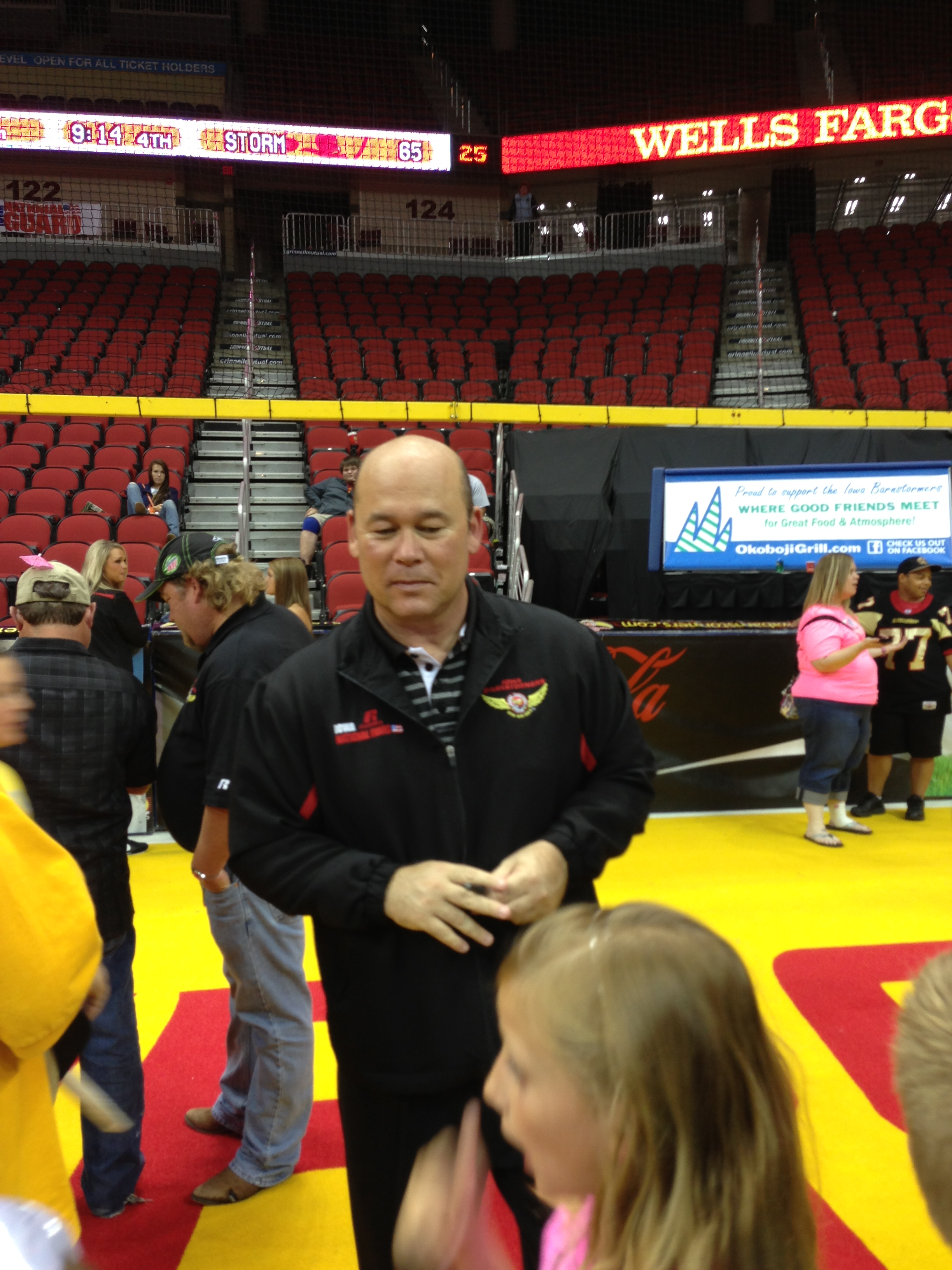 Mike Hohensee after 6.1.13 game